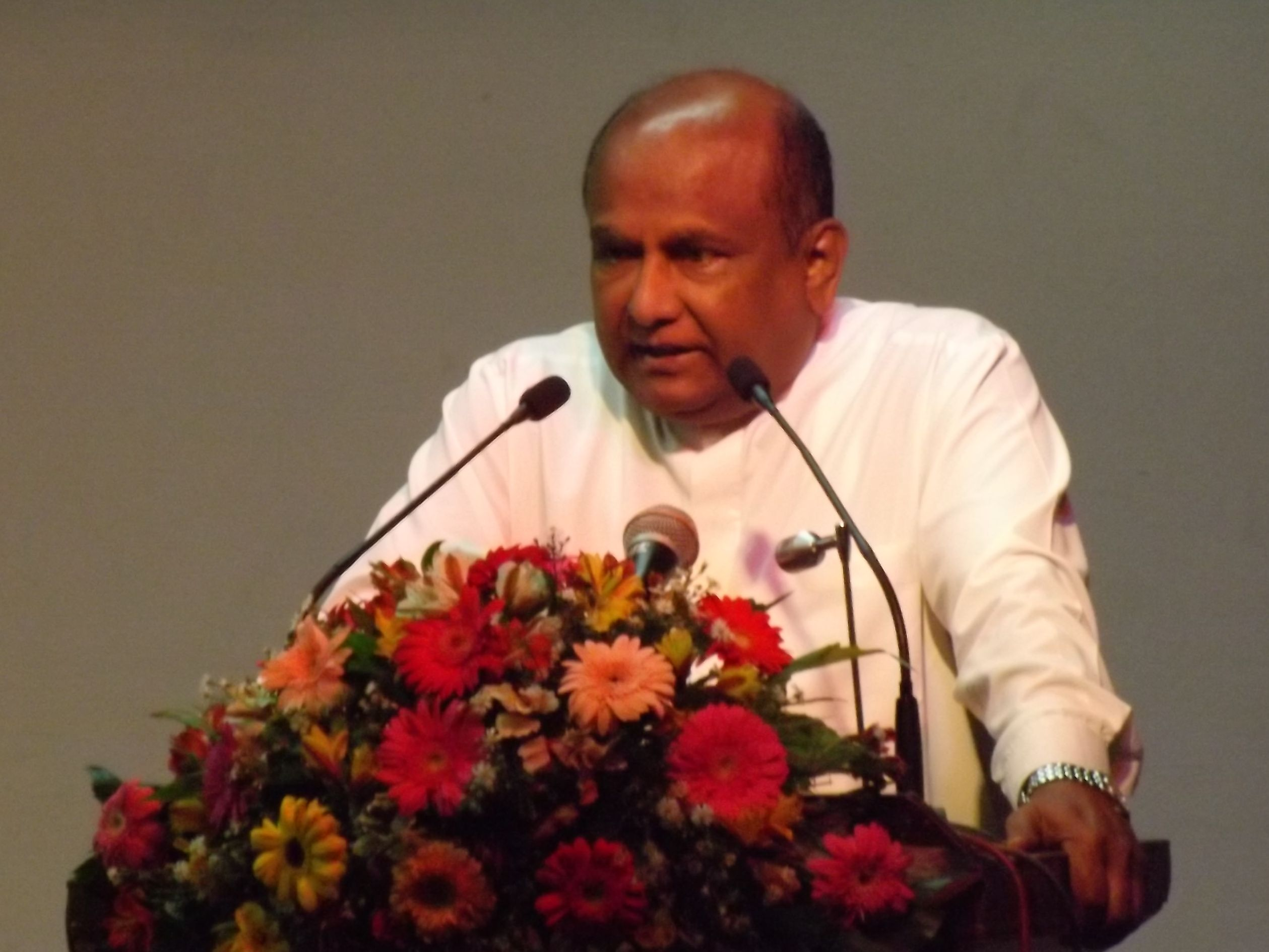 Mahinda Yapa Abeywardena, Sri Lankan politician and Minister of Agriculture